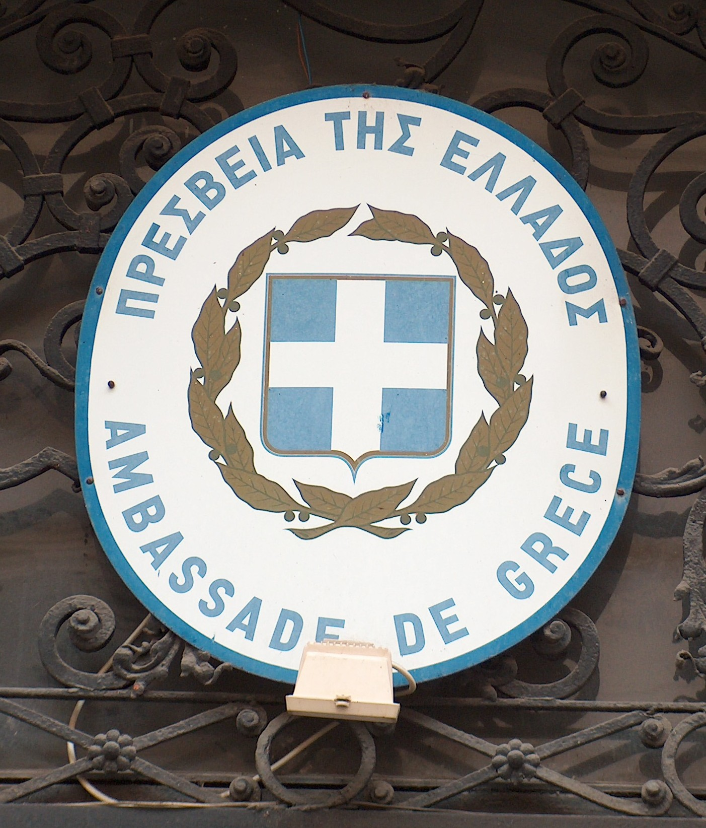 Plaque of the Greek embassy in Budapest, Hungary